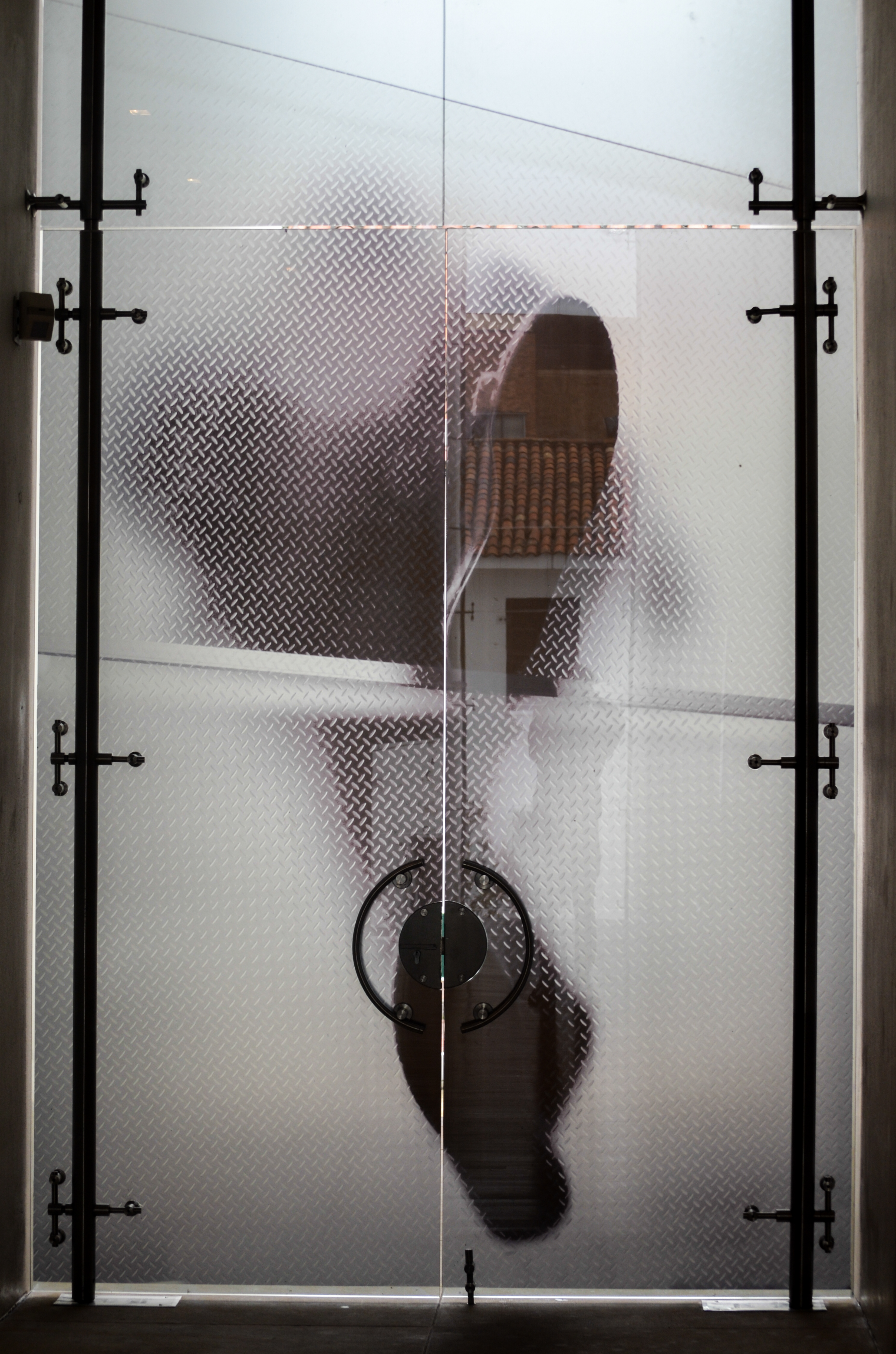 Exposición Banco de la República 2015 Bogotá D.C., Colombia Nada está donde se cree